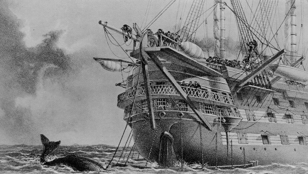 H.M.S. Agamemnon laying the Atlantic cable in 1858. A whale crosses the line.